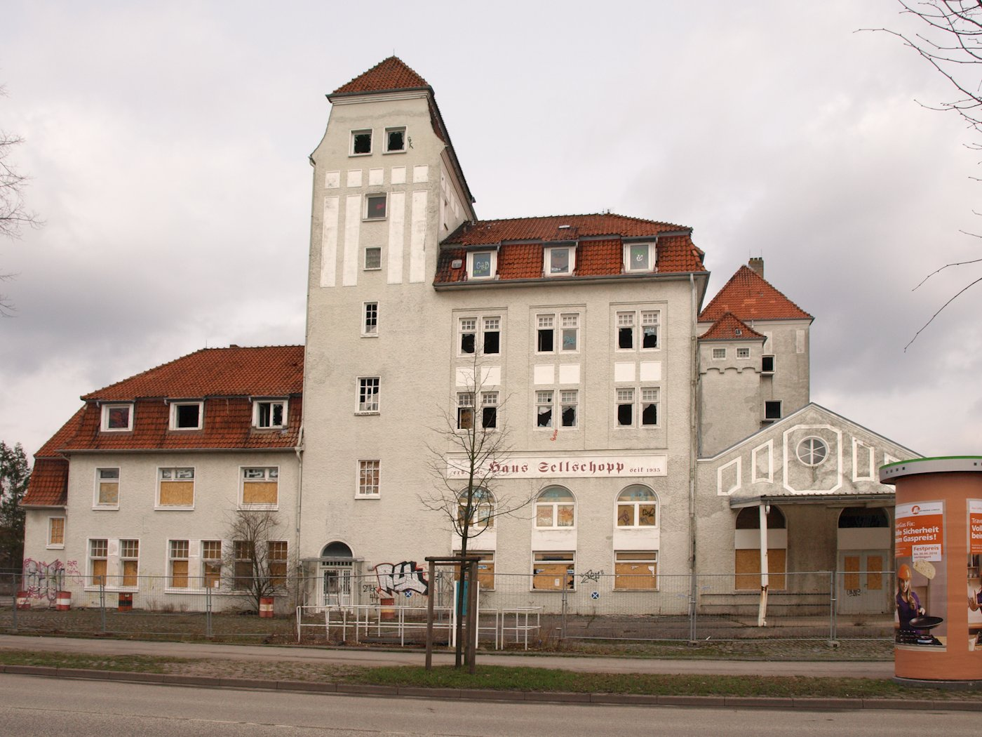 Lübeck (Schleswig-Holstein, Germany), former brewery, photo 2010, demolition 5/2017